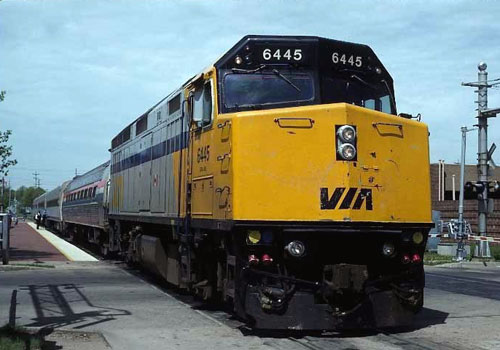 The eastbound International at Kalamazoo station in May 1994